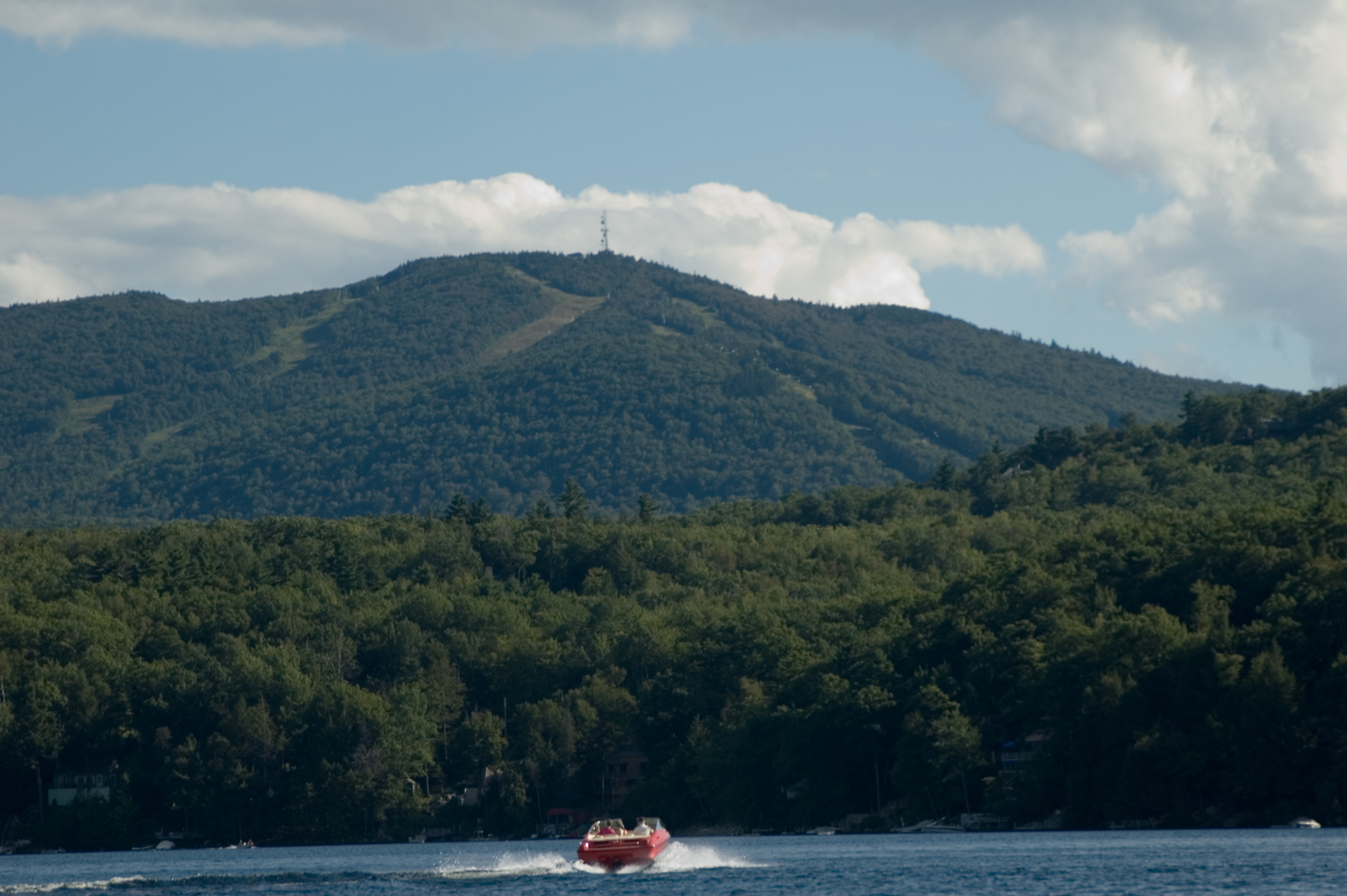 Mount Sunapee. Mount Sunapee is a great winter spot for you and your family to come to for if it is ither skiing, snoboarding, or what ever you enjoy doing Mount Sunapee also has a great lodge located on a great lakeside area where there is always a remembrance for you. so come on down to Mount Sunapee weater it is during the winter to skii or it is in the month of June when the sun is out. Mount Sunapee is a great resort to stay a couple of nights or even a week or two. ITS UP TO YOU